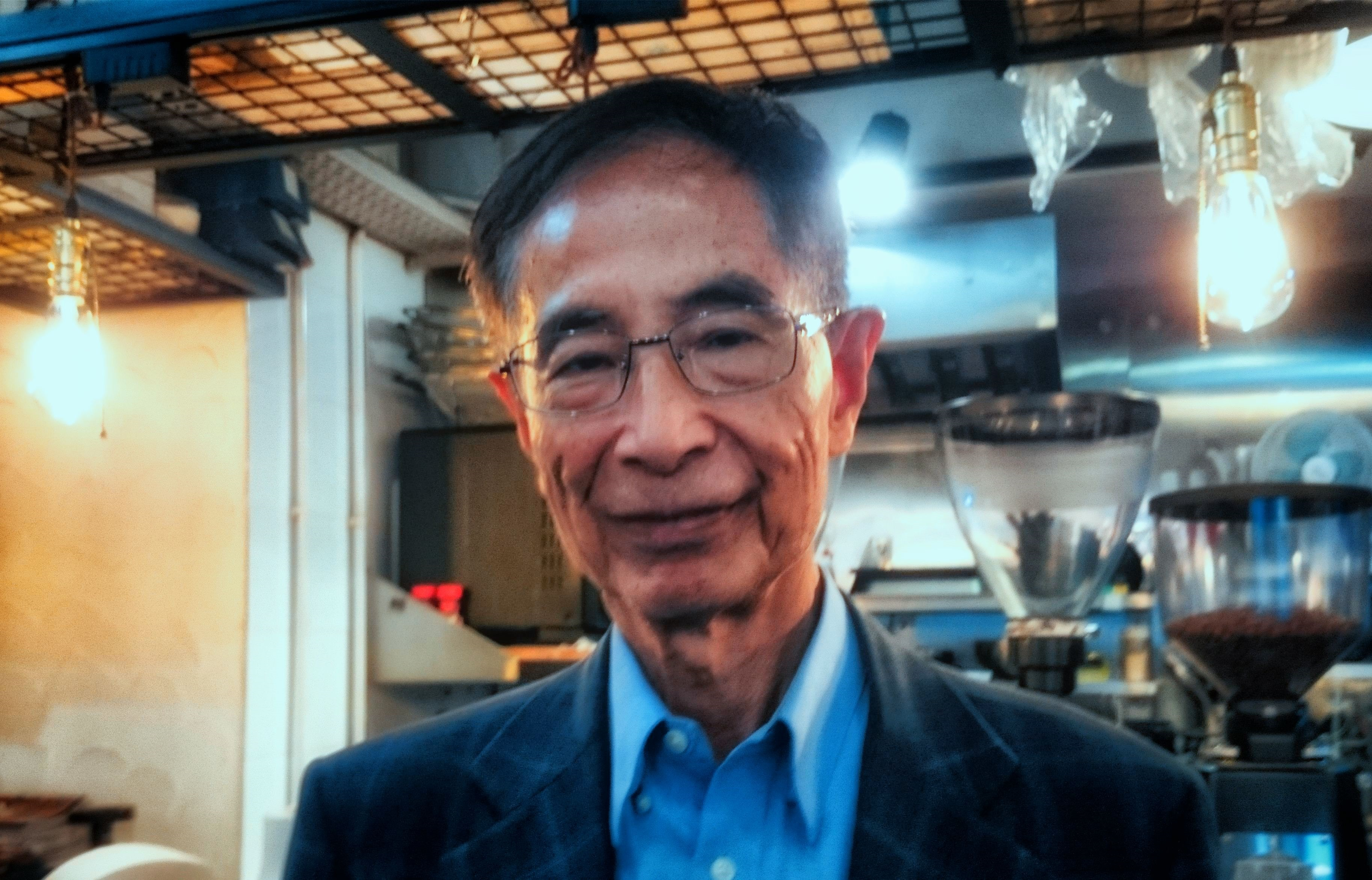 Martin Lee was in a coffeehouse on the night of May 31, 2019.